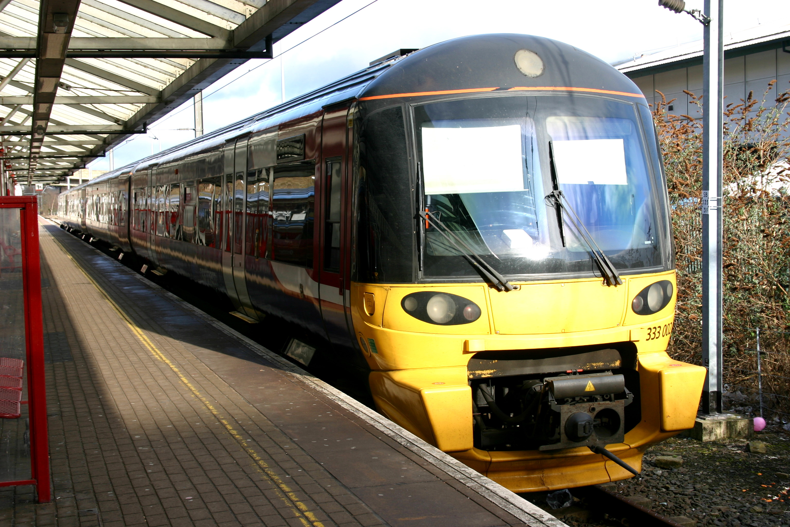 British Rail Class 333, number 333002, at Bradford Forster Square railway station.